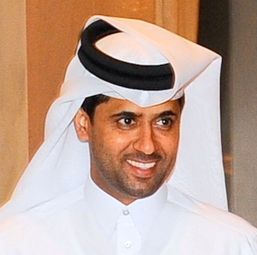 Paris St Germain top official Nasser Ghanem Al Kholaifi and Leonardo in Doha. Pic by Mohan